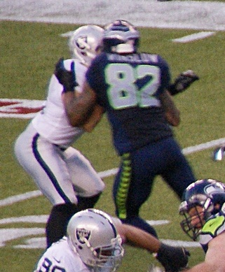 Kellen Winslow II blocking a Raider.